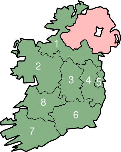 NUTS-3 regions of the Republic of Ireland.